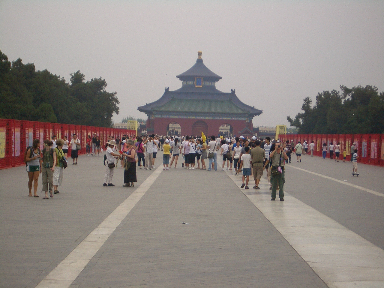 Danbi Bridge, the raised walkway between the Hall of Prayer for Good Harvests (祈年殿, the main building) and the Imperial Vault of Heaven (皇穹宇, further south) within the Temple of Heaven grounds. Looking north toward the Hall of Prayer for Good Harvests.